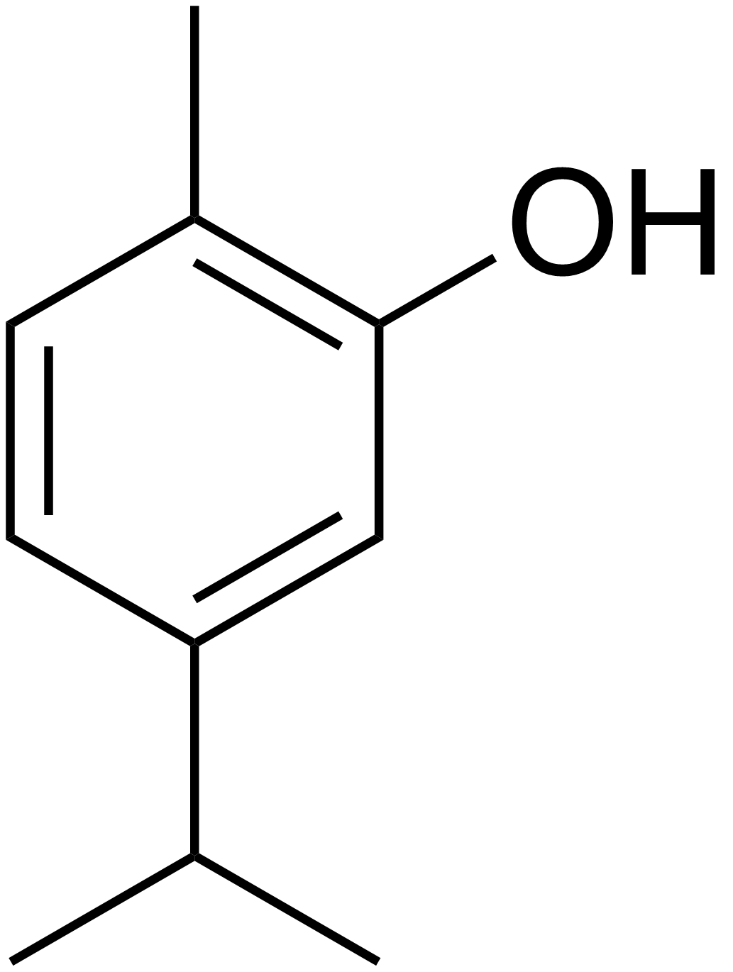 chemical structure of carvracol